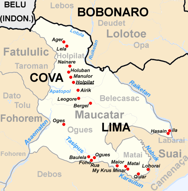 Administrative map of the Maucatar subdistrict of East Timor